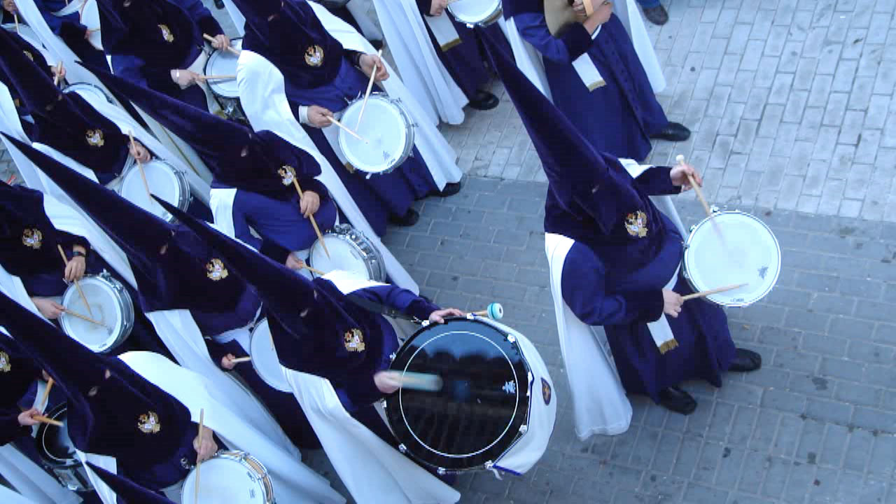 Main drummer in the percussion section